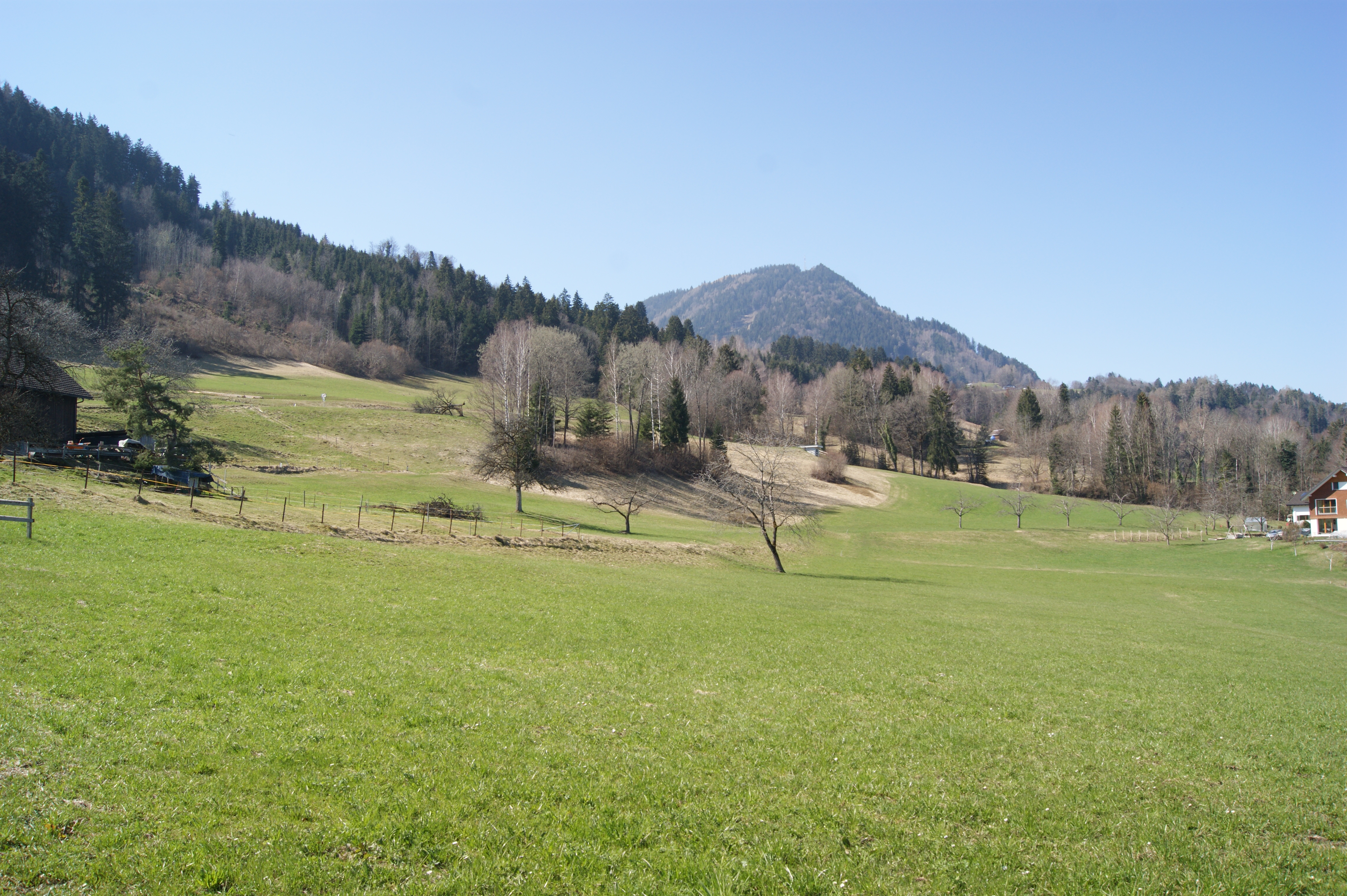 View to "Aelpele" in Frastanz from the Hamlet Rungeletsch in Nenzing in Vorarlberg, Austria.